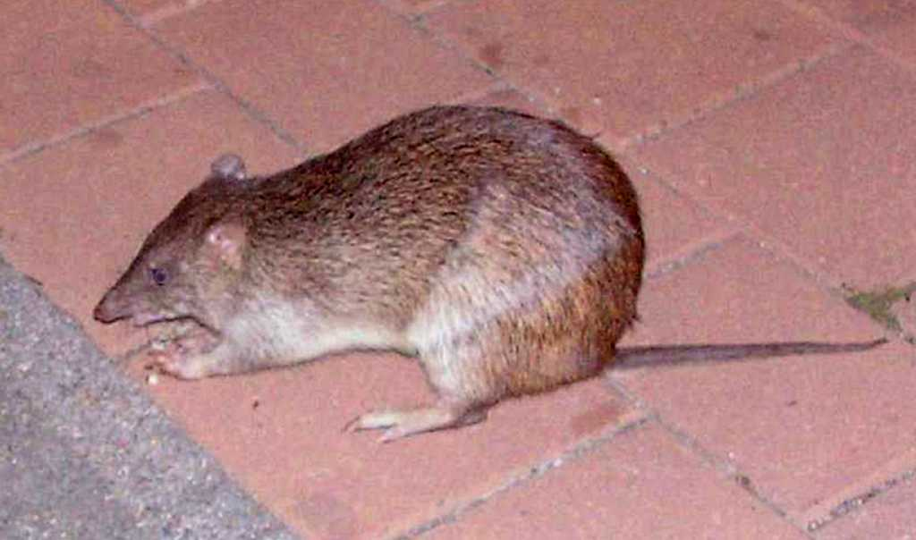 Northern Brown Bandicoot (Isoodon macrourus), Queensland, Australia